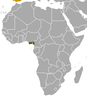 Crested Servaline Genet (Genetta cristata) range